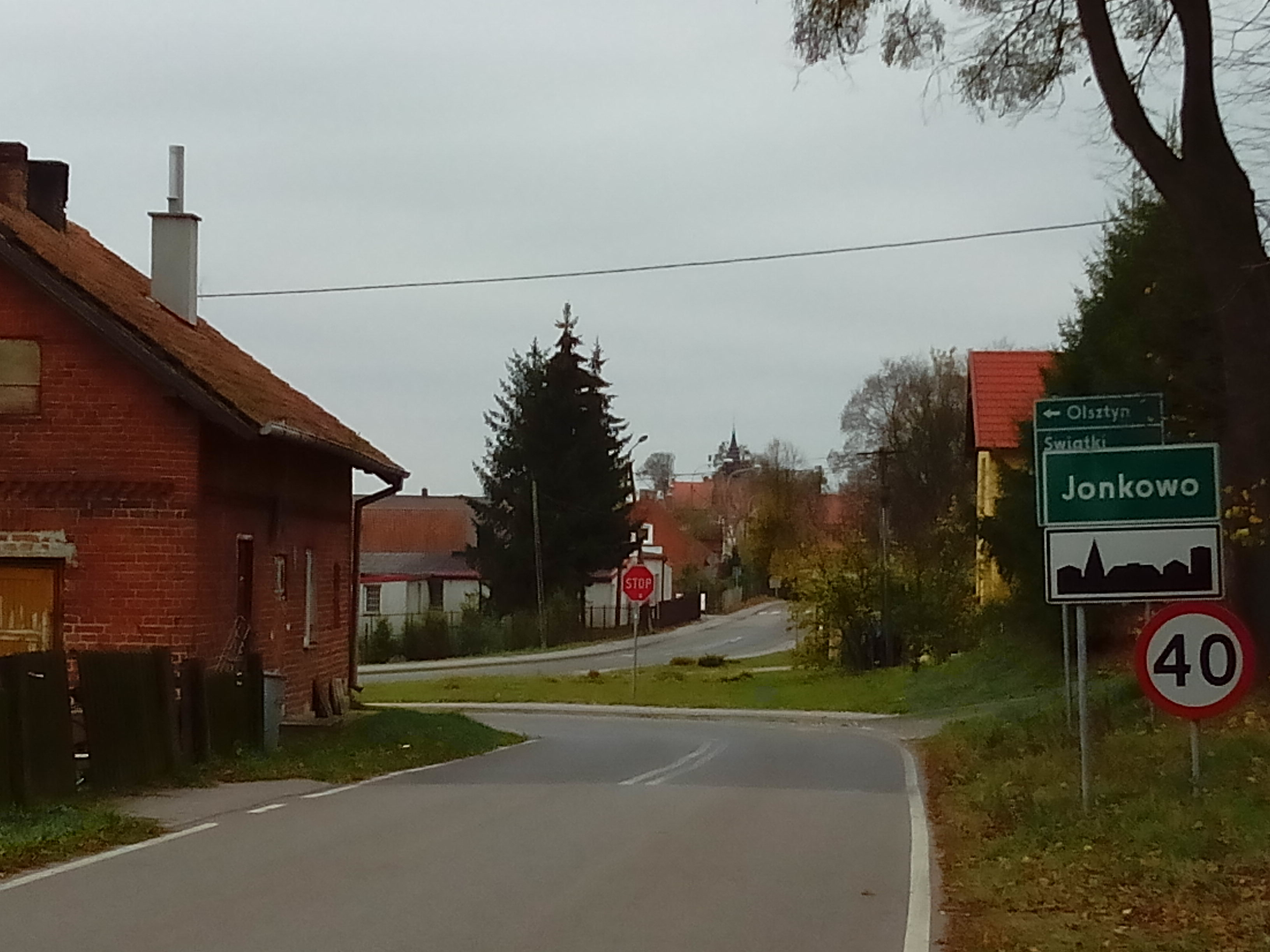 Village of Jonkowo 2014